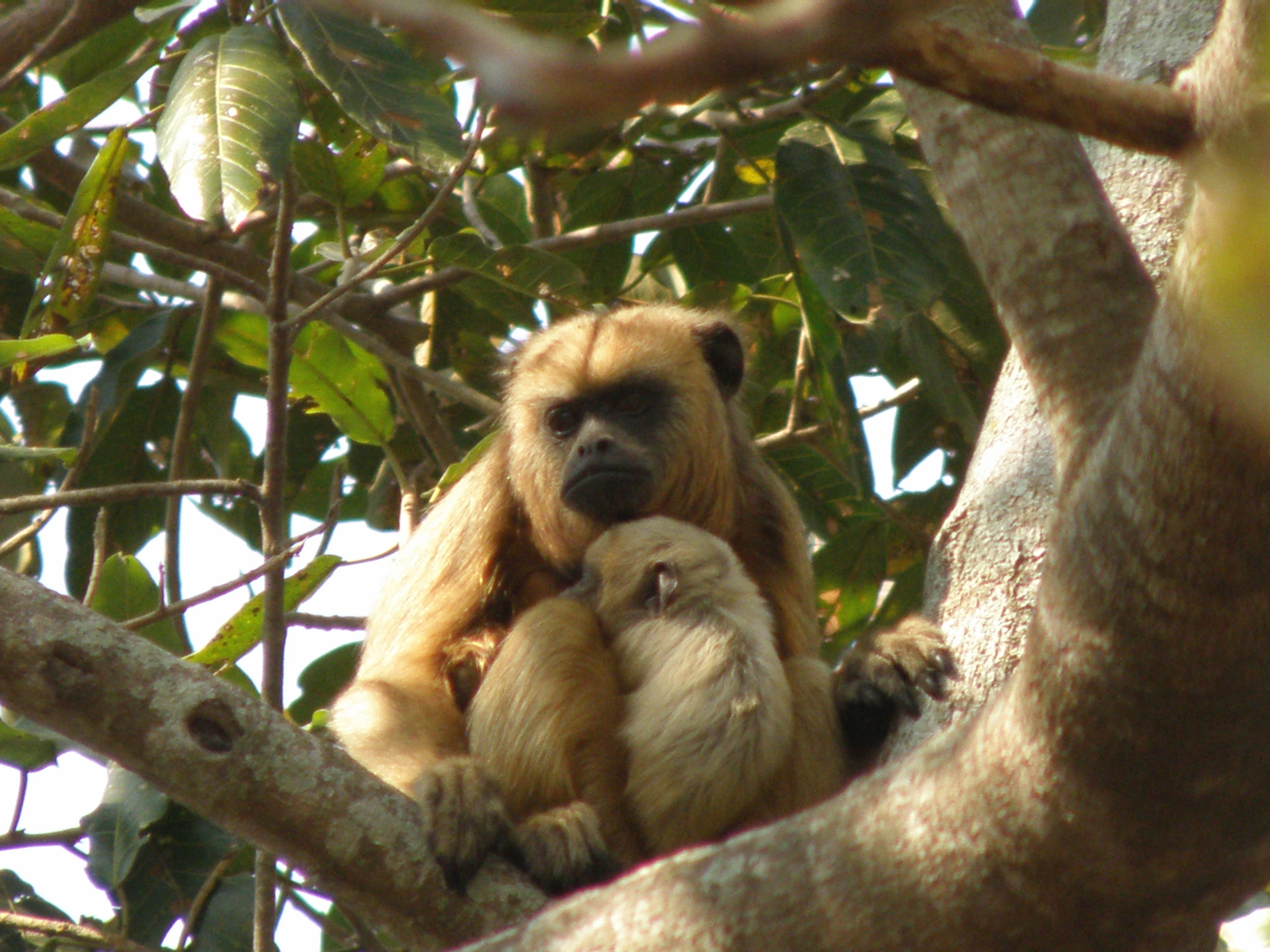 Howler monkey - Female and its young - Pantanal - Brazil